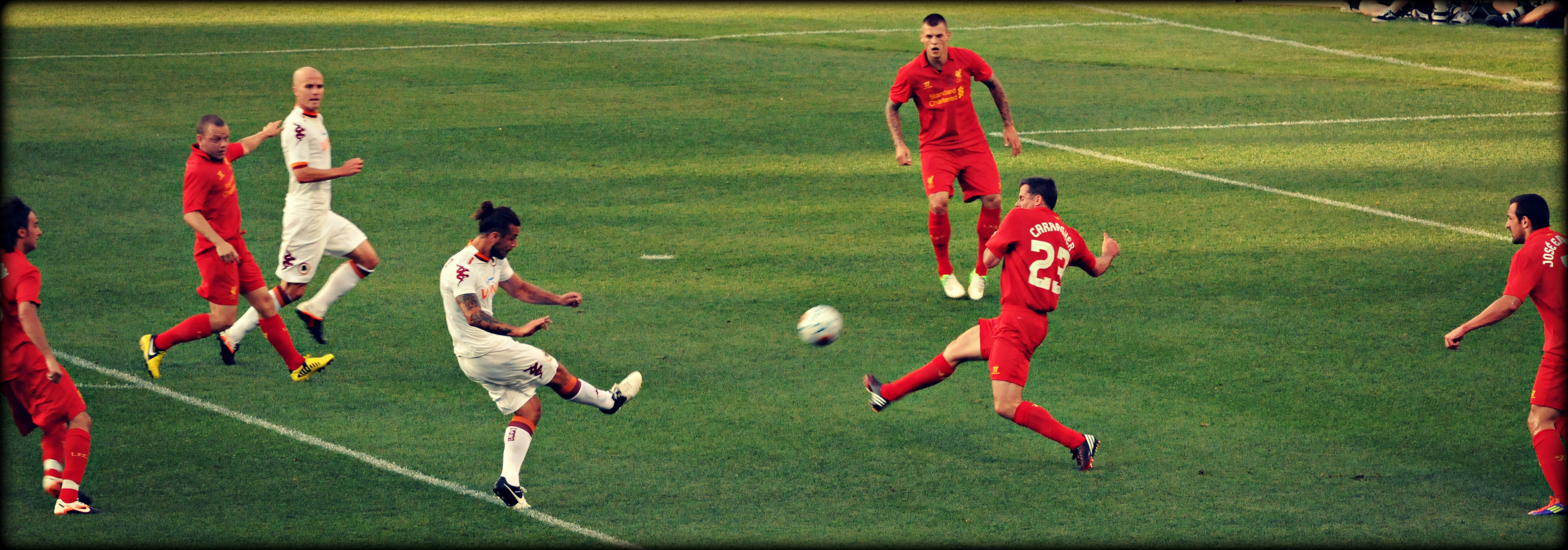 LFC vs Roma @ Fenway Park (Boston, Massachusetts)